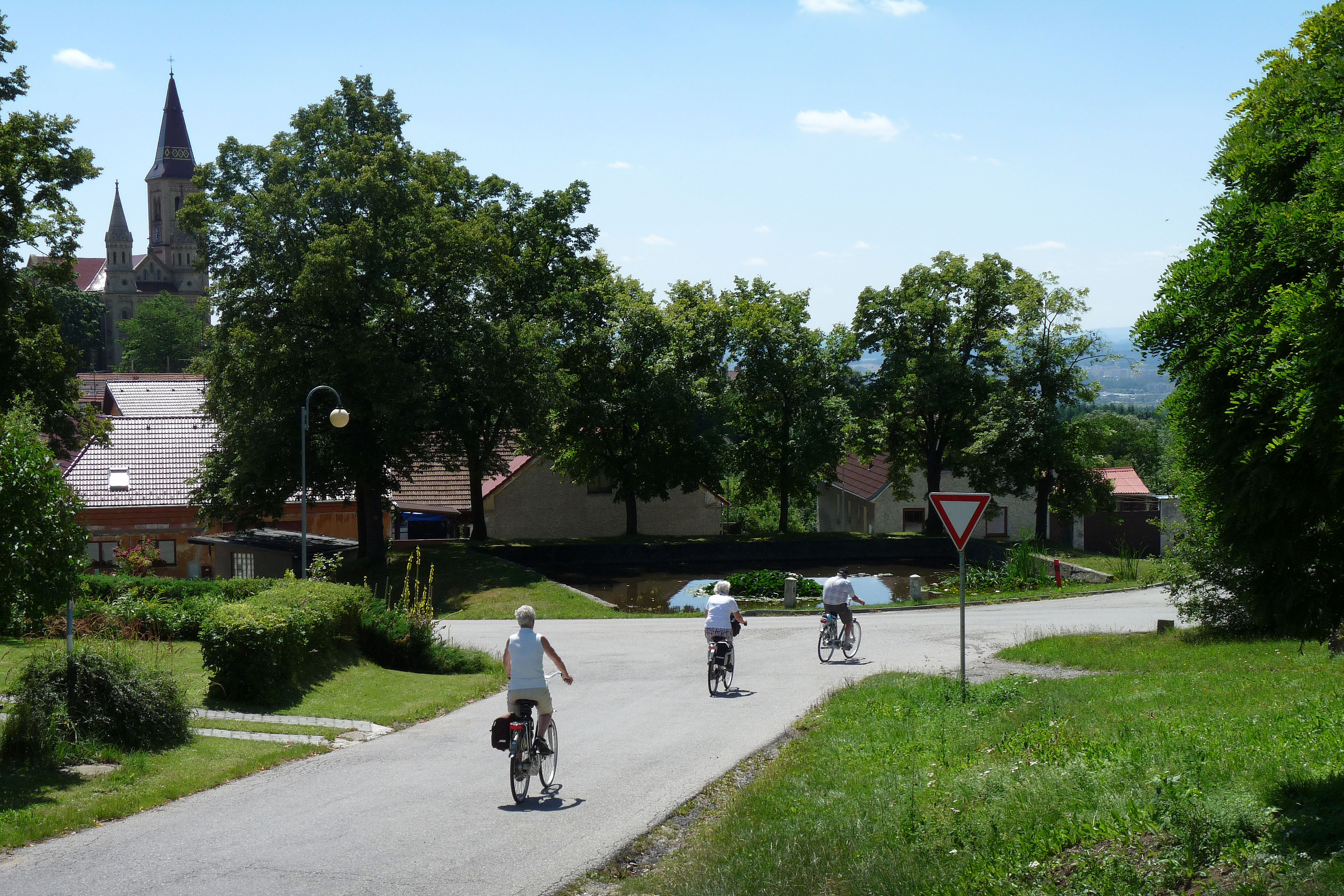 Cyclists in the village of Hosín, České Budějovice District, Czech Republic. Česky: Cyklisti na návsi obce Hosín v okrese České Budějovice.